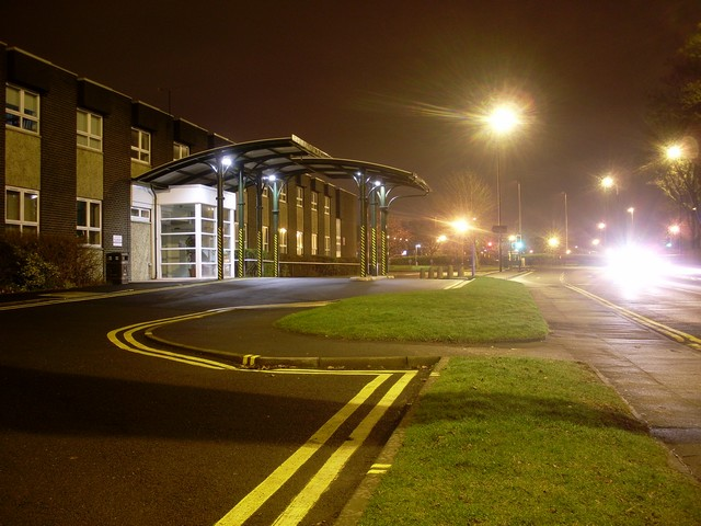 Entrance to Freeman Hospital Just off Freeman Road.